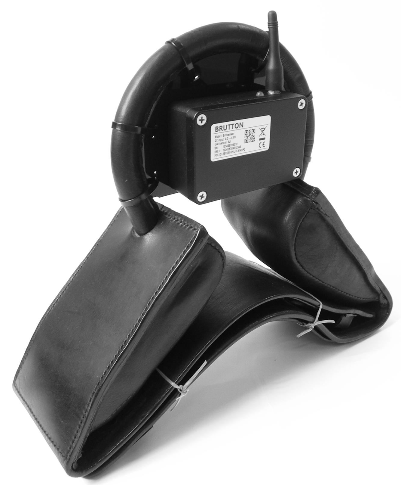 Birthsensor birthalarm